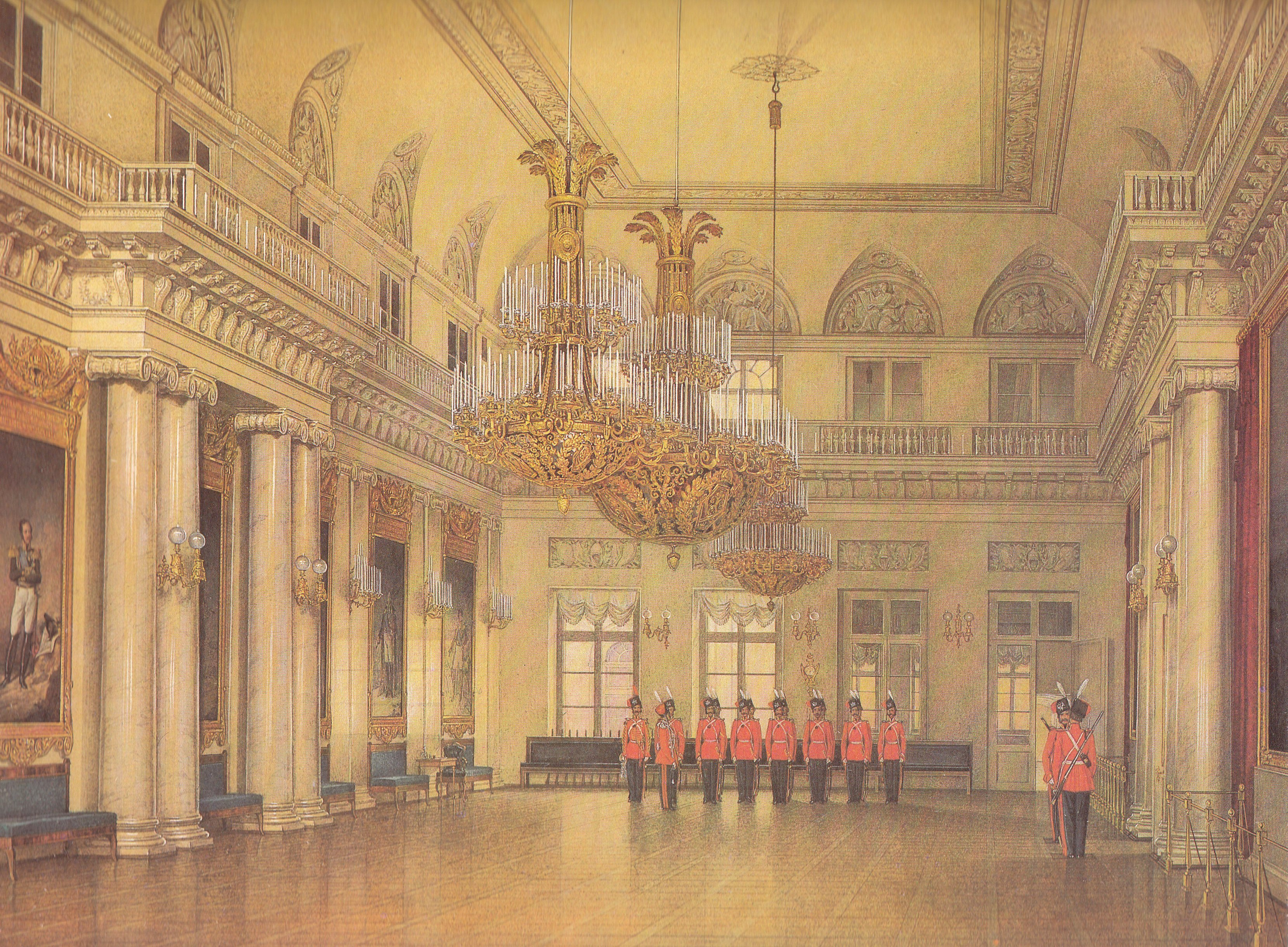 Interiors of the Winter Palace. Field-marshal Hall